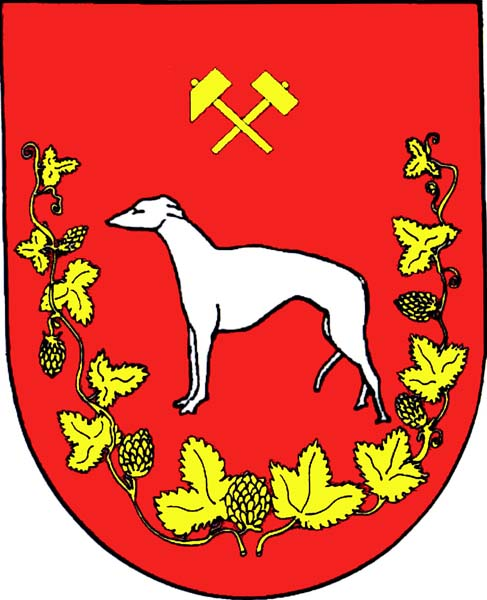 Coat of amrs of Kroučová , District Rakovník, Czech Republic